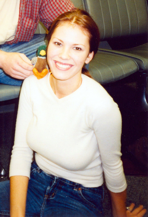 Nikki Cox: I took this photo in October 2000 while she was on tour to promote the launch of her TV series "Nikki" depicted person: Nikki Cox (age: 22)